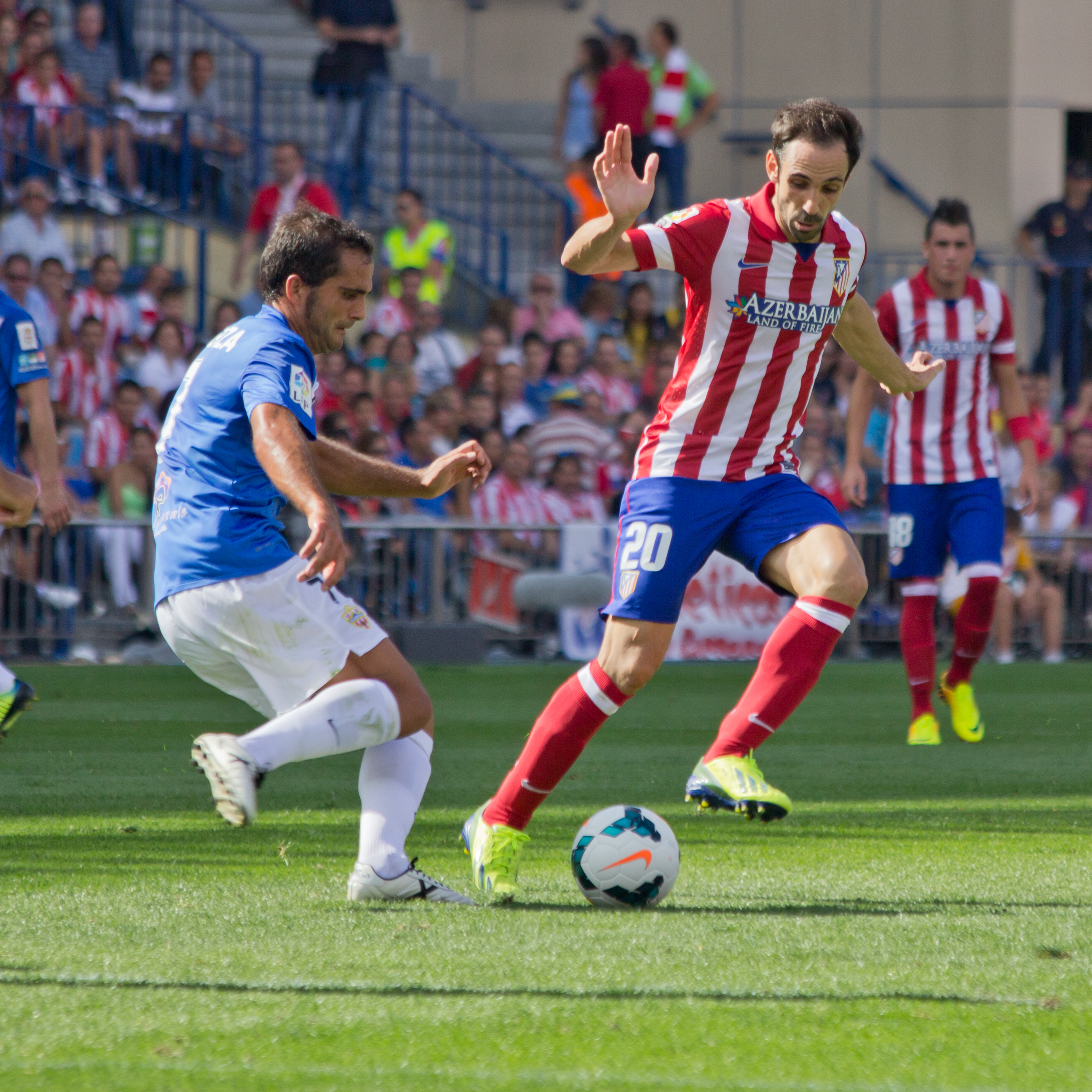 Juanfran Torres and José Antonio Verza at the game Atlético de Madrid-UD Almería.